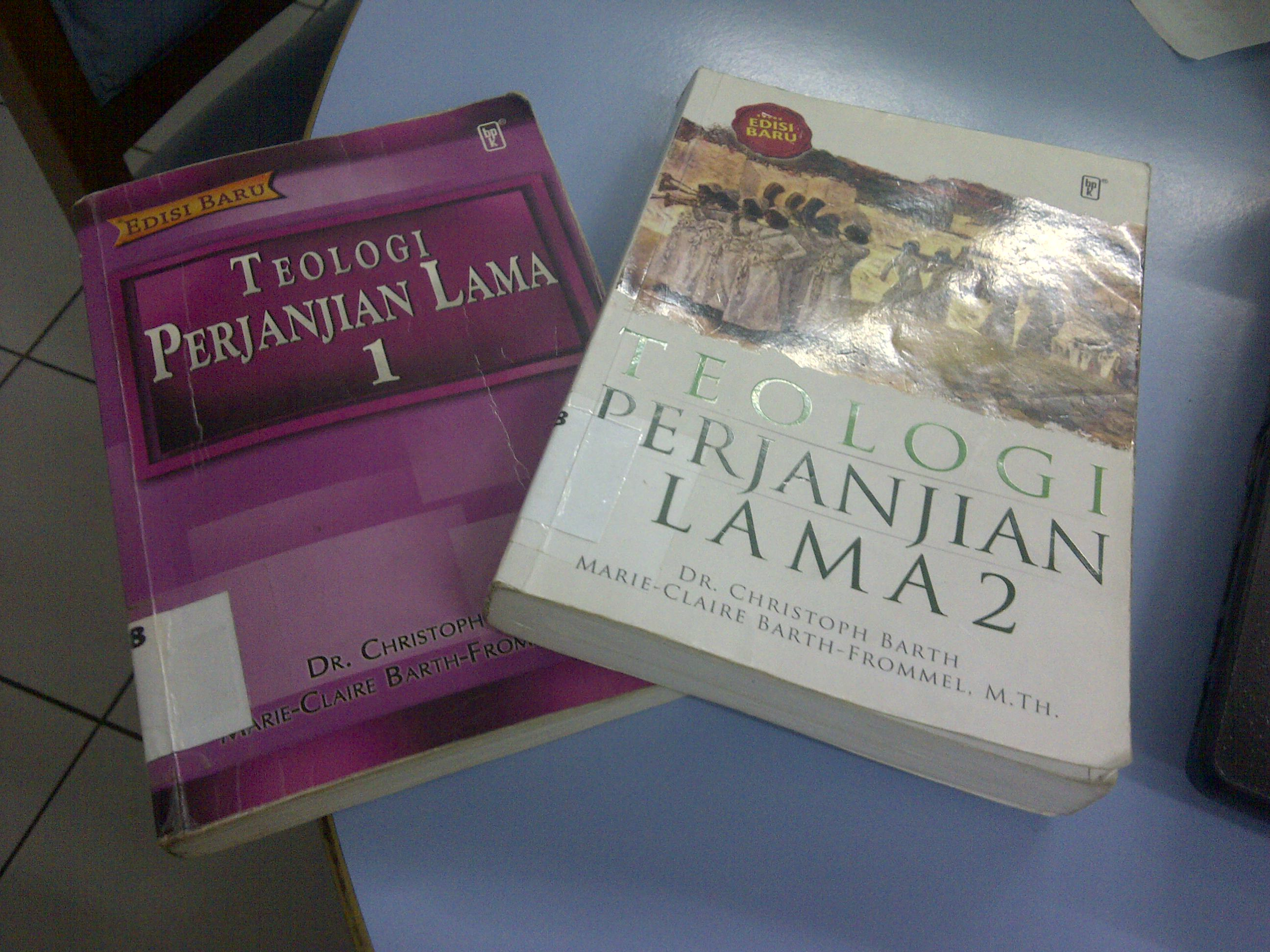 Buku Teologi Perjanjian Lama Indonesia